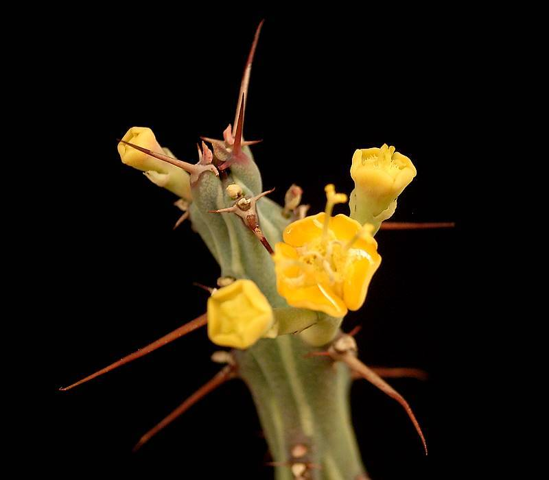 Euphorbia awashensis